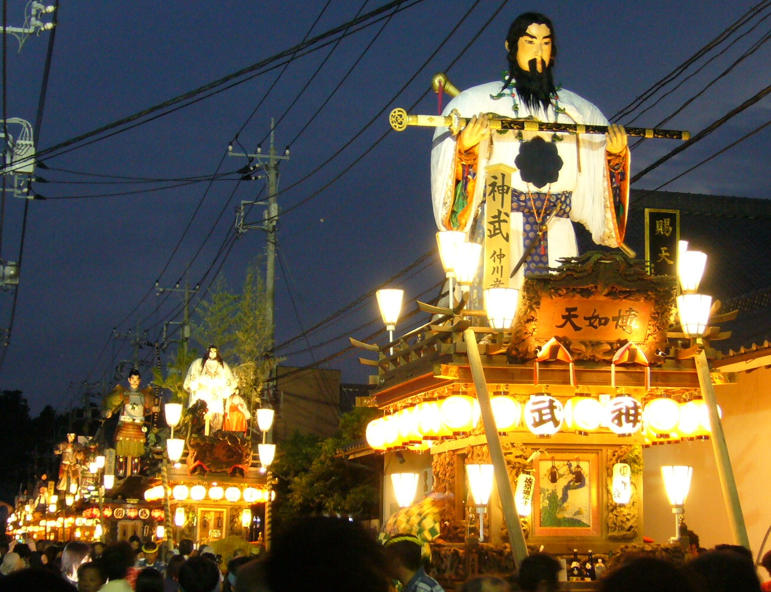 Float-stand-in-a-line,shinjyuku,sawara-float-festival,katori-city,japan